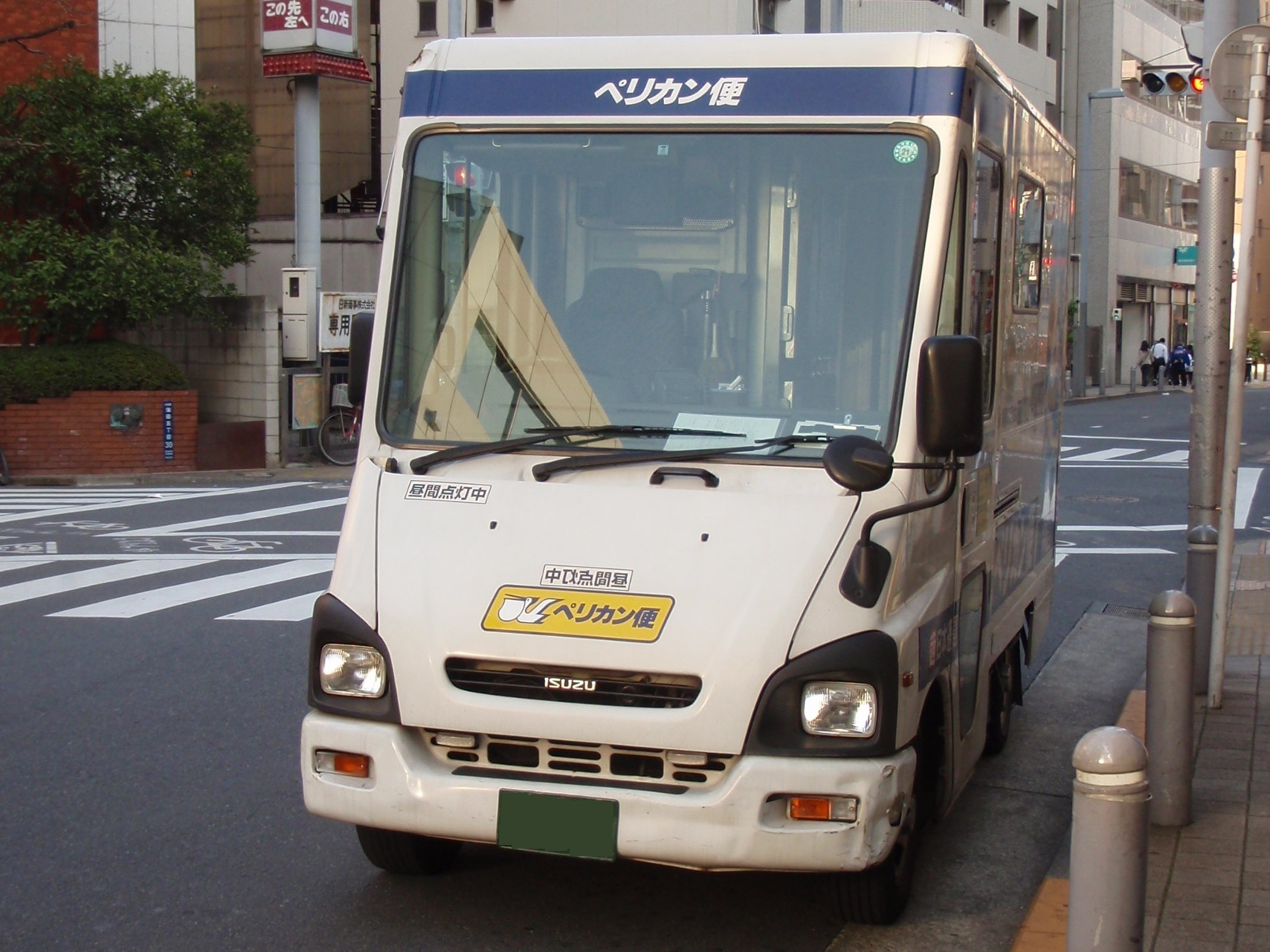 ISUZU BEGIN